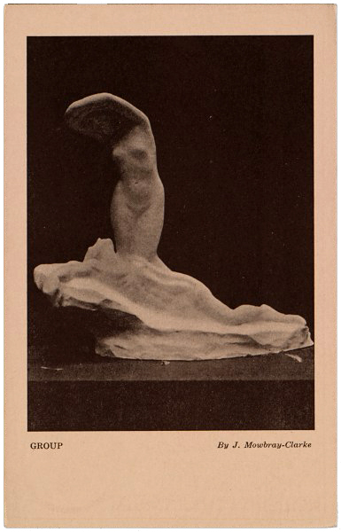 Postcard gives title of work as Group. One of several postcards issued in commemoration of the Armory Show, featuring works from the exhibition. From the Walt Kuhn, Kuhn family papers, and Armory Show records, Archives of American Art, Smithsonian Institution.